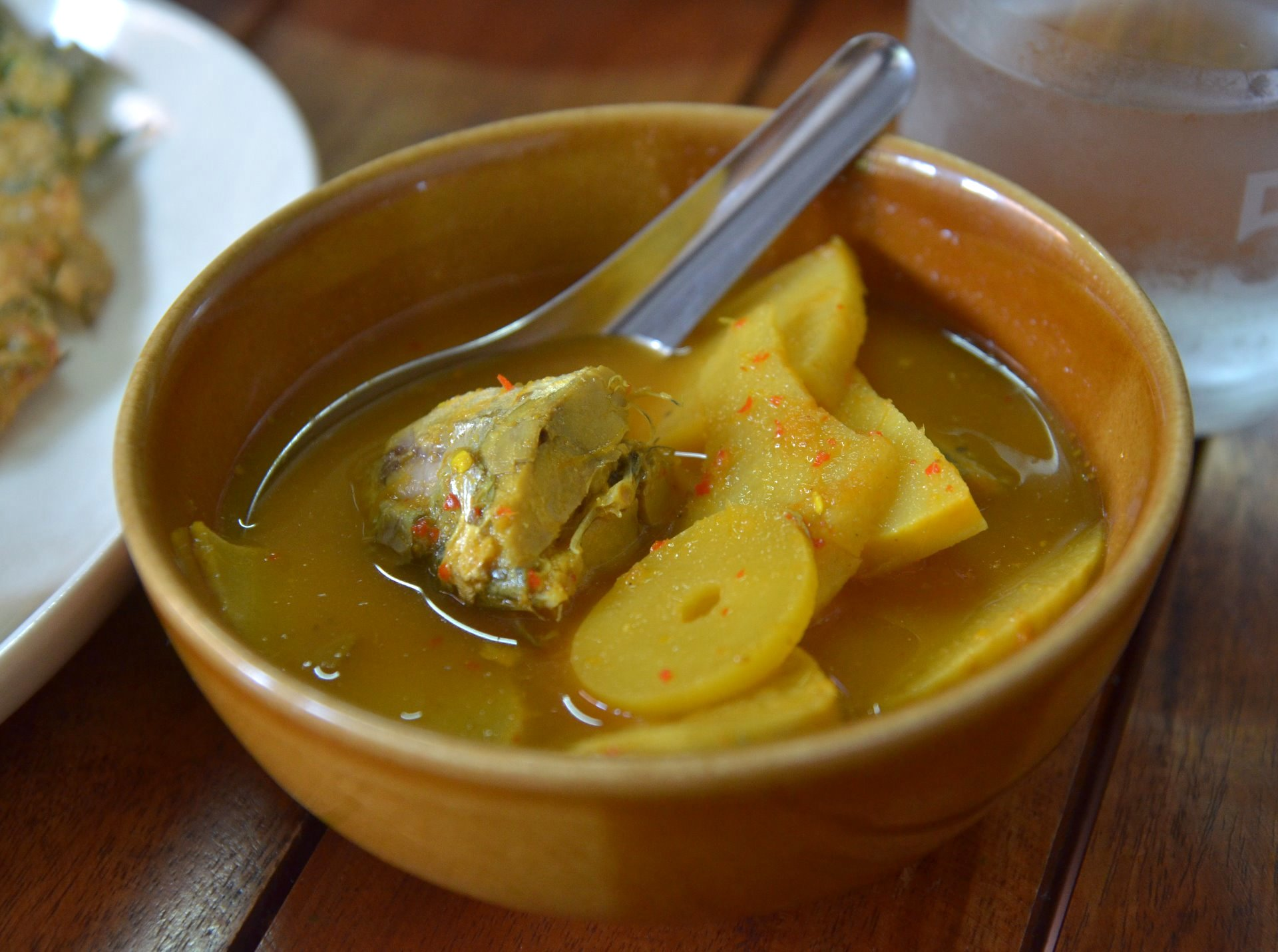 Kaeng lueang (Thai script: แกงเหลือง; lit. "yellow curry") is the Central Thai name for the famous sour curry from southern Thailand. In Southern Thailand it is called simply called kaeng som (Thai script: แกงส้ม; lit. "sour curry"). The curry in this image is a very traditional and basic version with fish and bamboo shoots. The photo was taken at a small eatery in Chiang Mai which was run by a lady from Ko Pha Ngan.